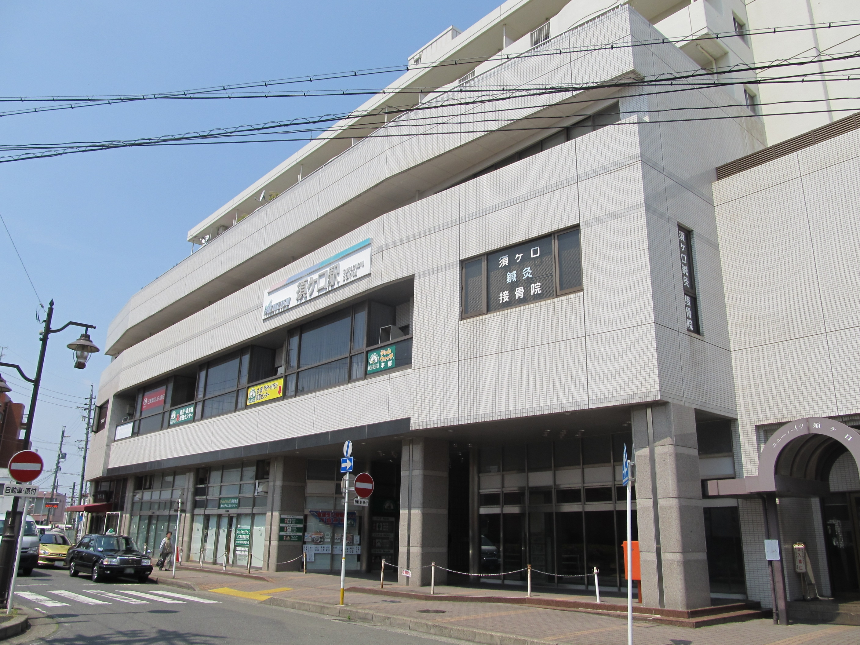 Nagoya Railroad Nagoya Main Line and Tsushima Line Sukaguchi Station Building